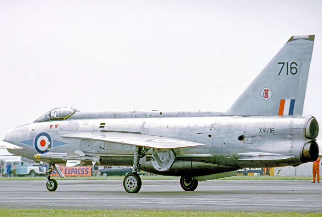 English Electric Lightning F.3 XR716 of 226 OCU at Woodford airfield in 1973